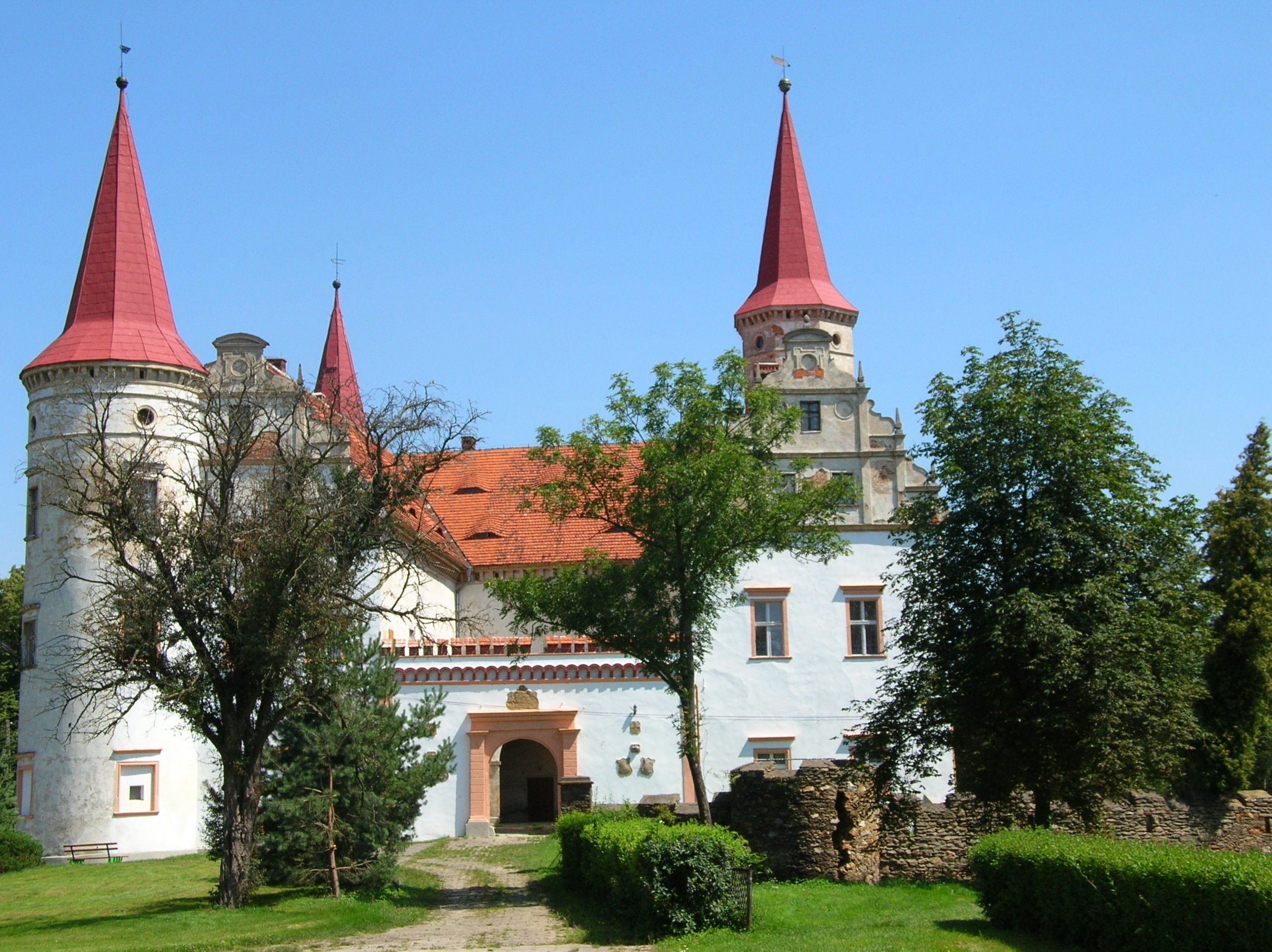 Castle in Stoszowice